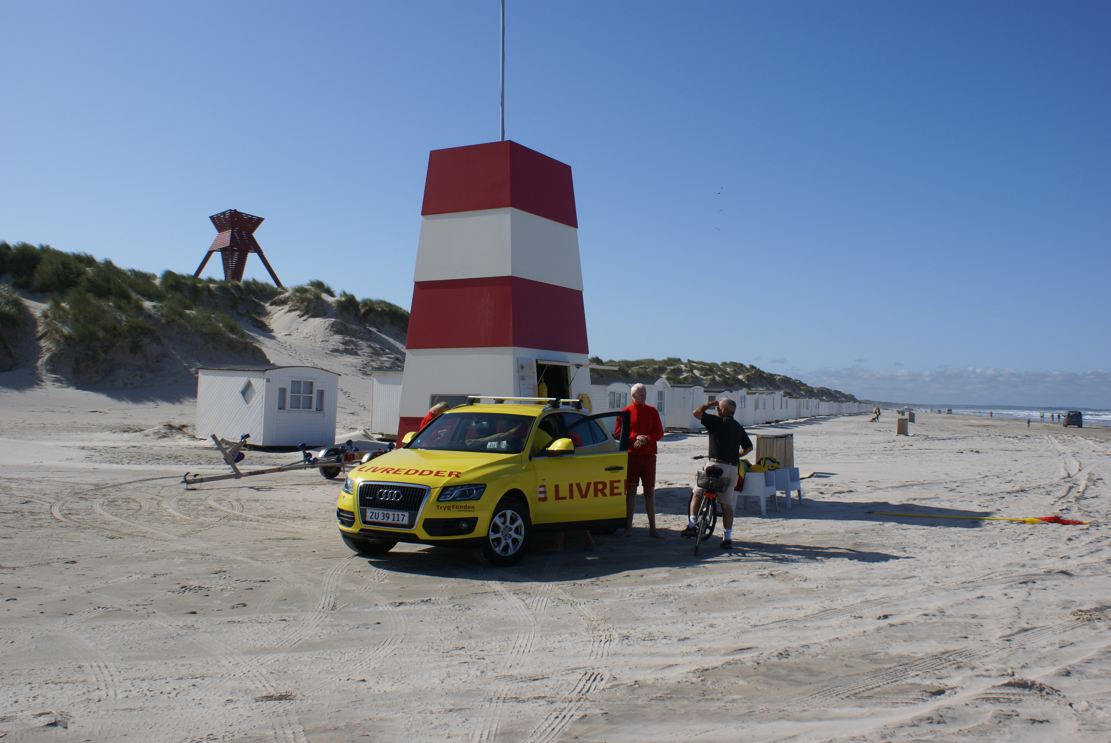 Beach at Blokhus, Denmark